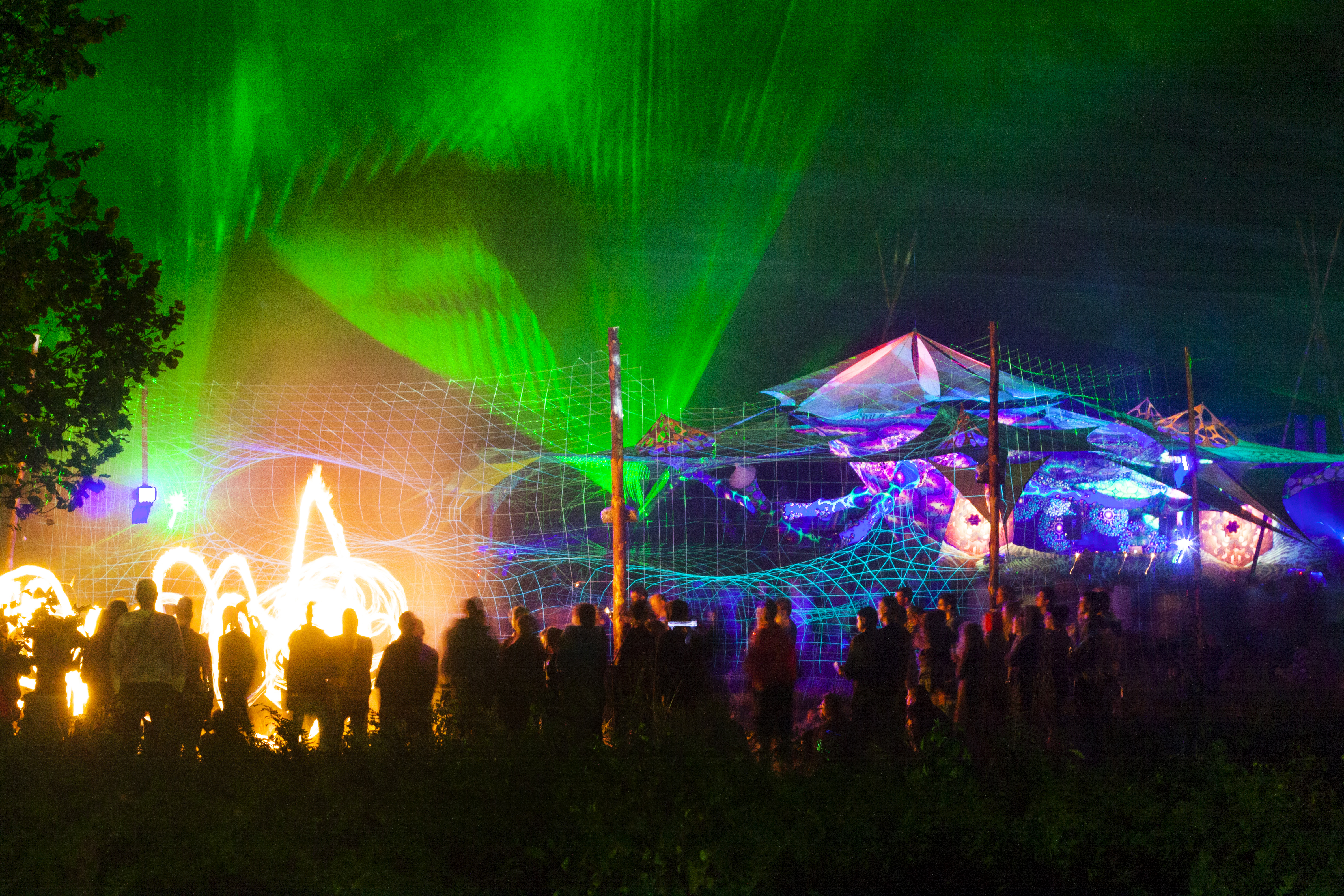 Photographer: Gytis Vidziunas (